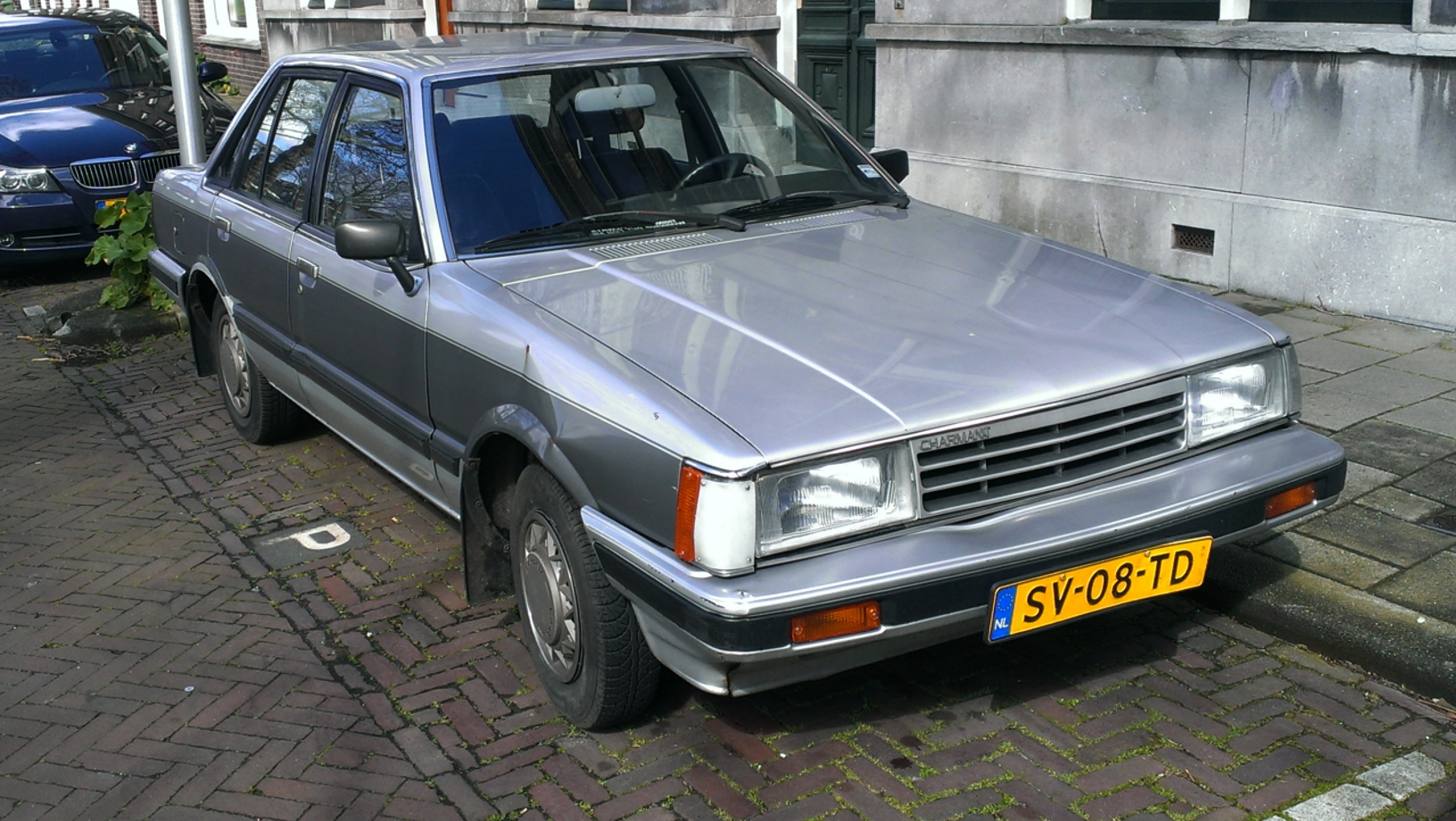 1988 Daihatsu Charmant 1300 LC Altair front